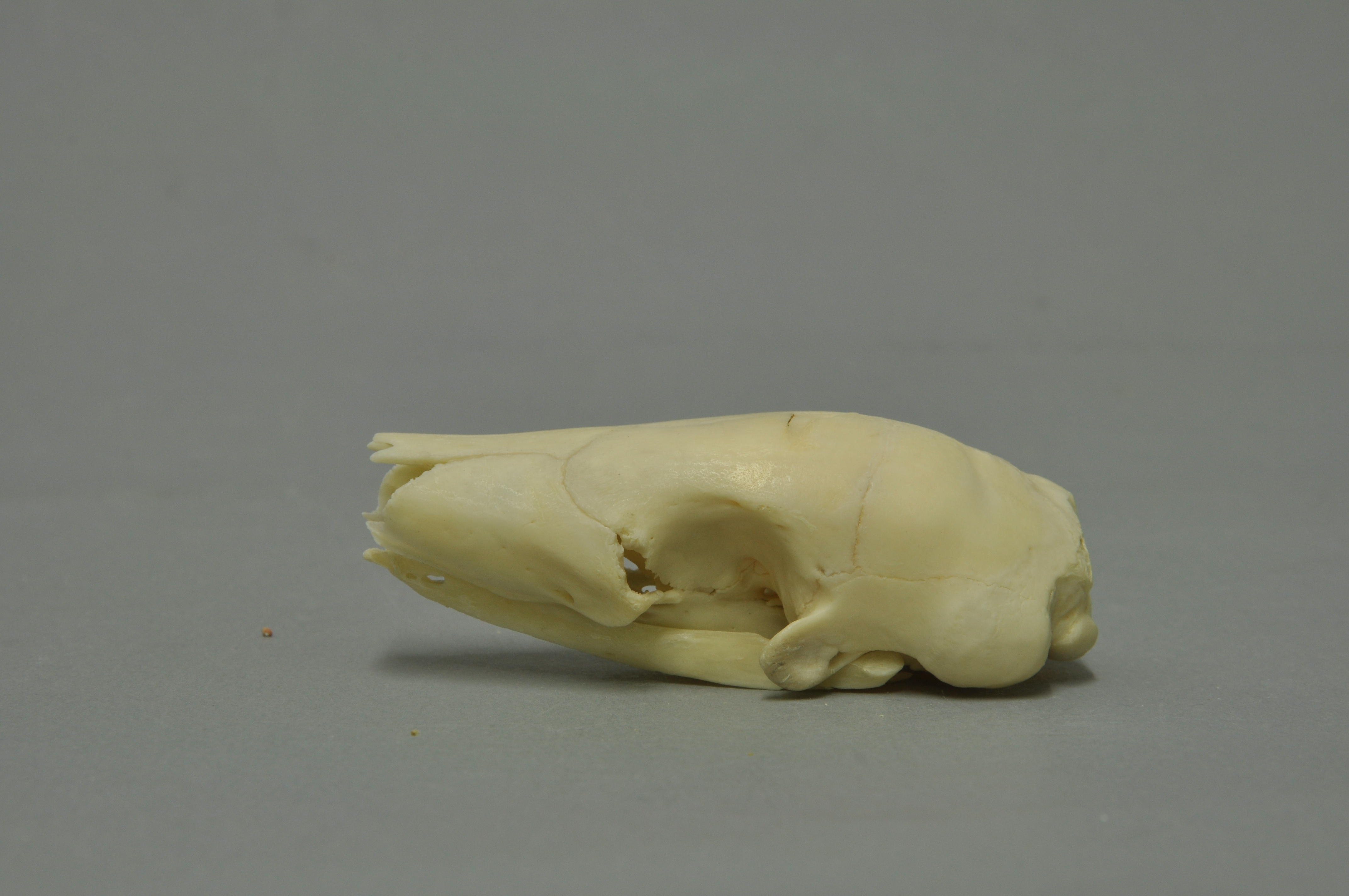 Tree pangolin Manis tricuspis , skull, Coll. Museum Wiesbaden